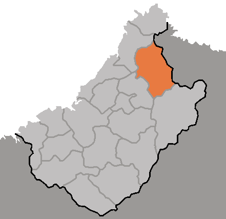 Map of Hwapyong, Chagang-do, DPRK, 2006